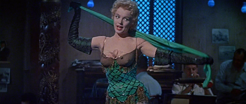 Screenshot of Marilyn Monroe from the trailer for the film Bus Stop